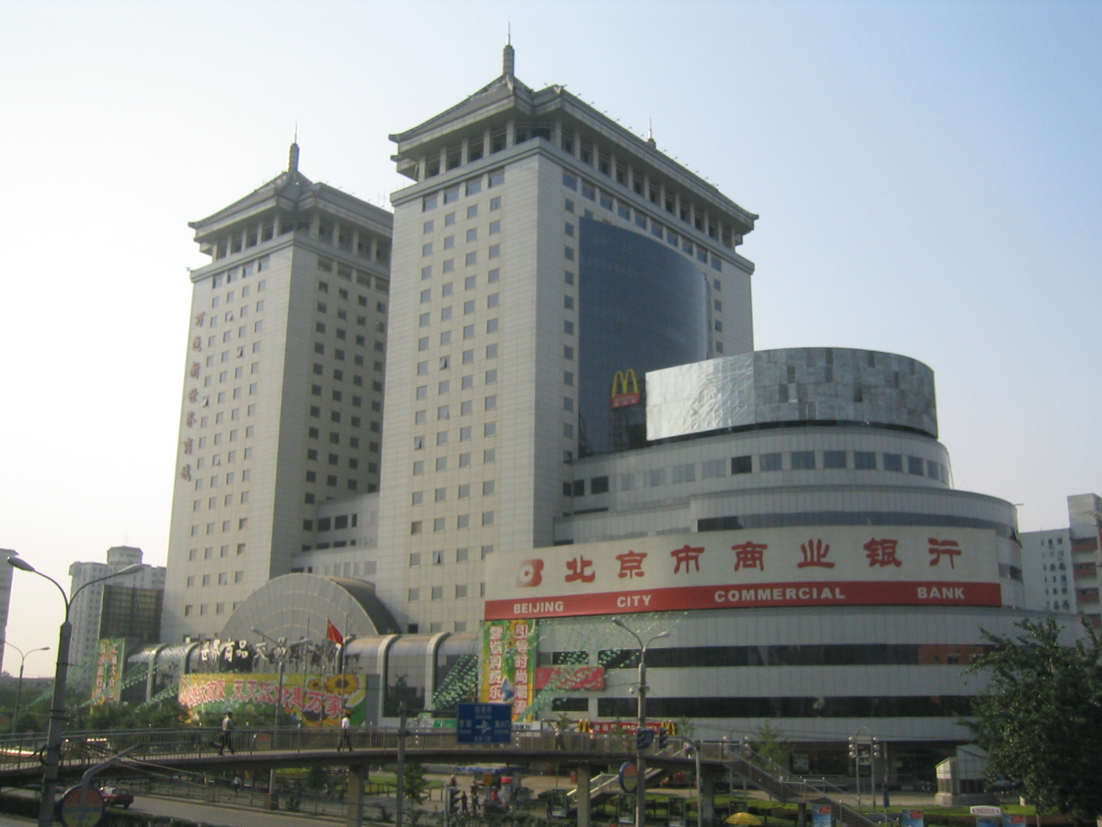 Beijing city commercial bankIMG_0125